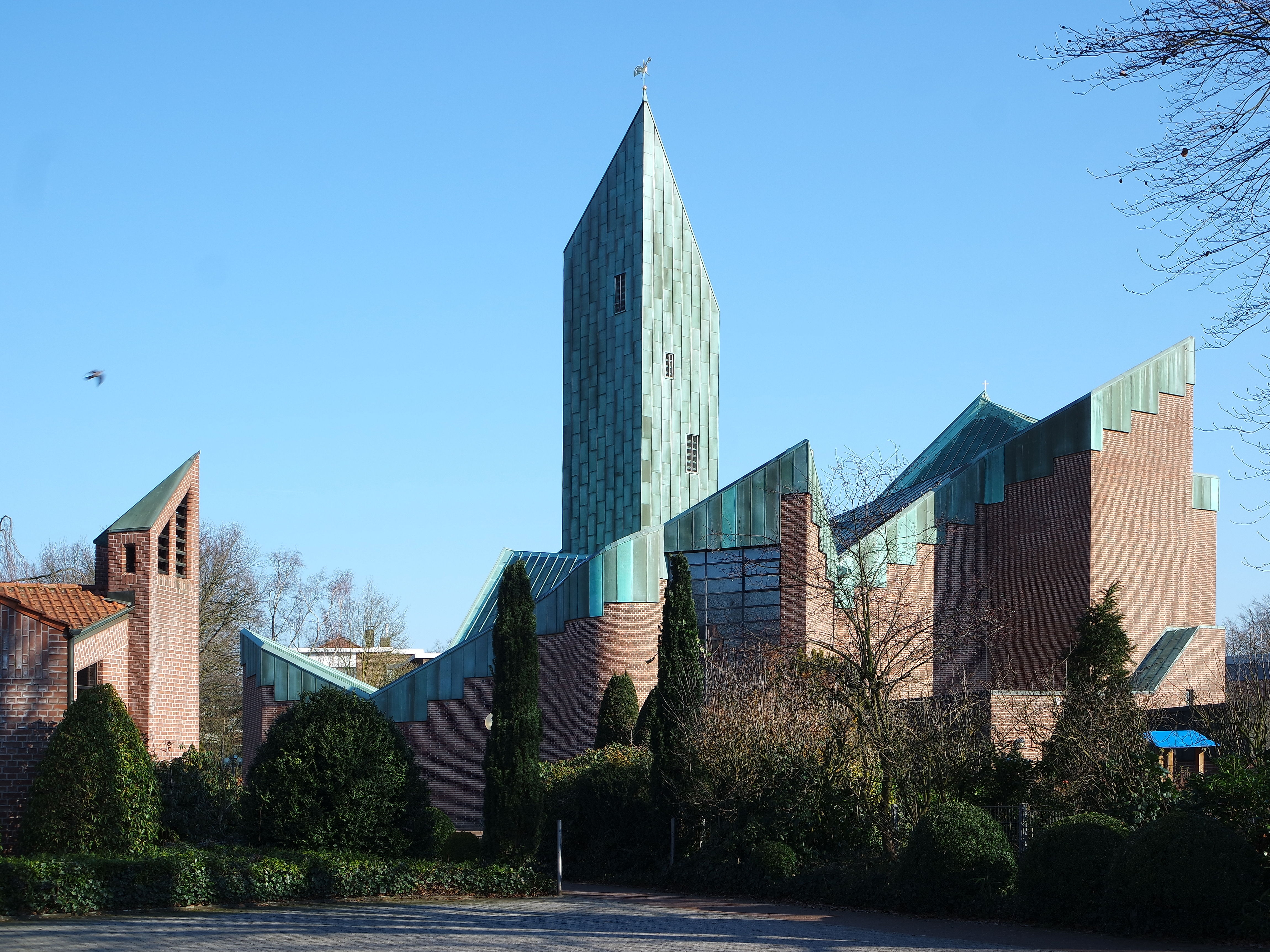 Southern view of the Parish Church of St Paul in Bocholt, Germany.